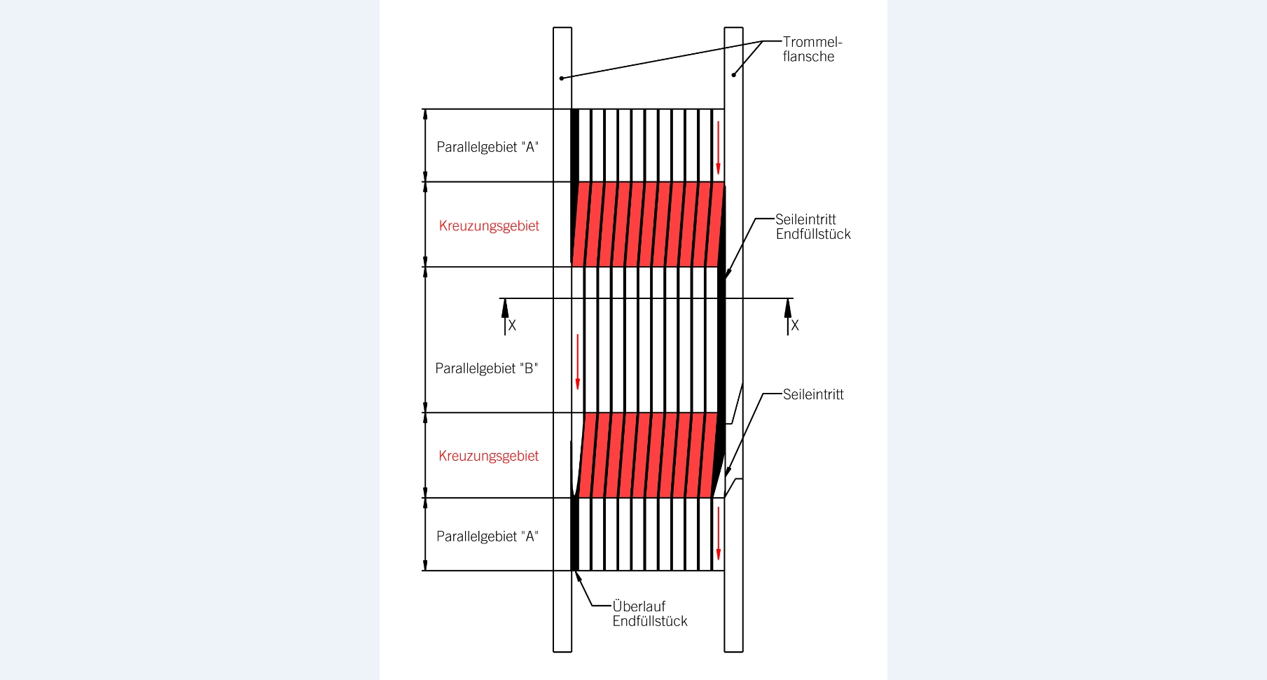 Prinzip Mehrlagen-Seilspulung